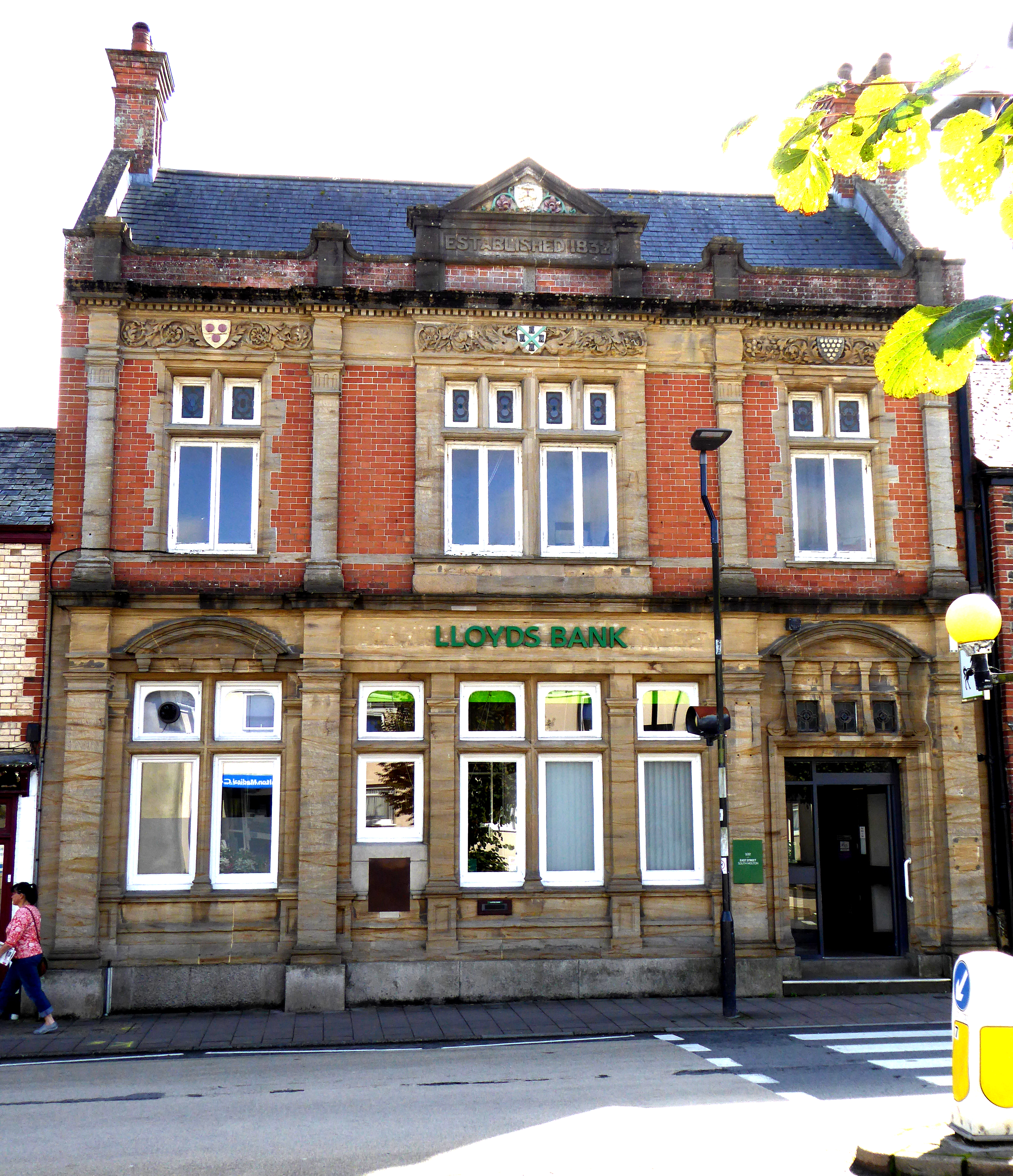 Devon & Cornwall Bank building, South Molton, Devon. The Plymouth & Devonport Banking Company was established in 1832 as a joint-stock company at Plymouth in Devon, and having developed a wide branch network across the south-west, it changed its name to the Devon & Cornwall Banking Company. It was acquired in 1906 by Lloyds Bank, which was in need of a branch network in the south-west, and remains a branch-office of Lloyds in 2017. On the facade are displayed from left to right: arms of Courtenay, Earls of Devon; the arms of the Corporation of Plymouth; the Duchy of Cornwall; sculpted text above: "Established 1832" above which in the pediment are shown the arms of the Borough of South Molton. Behind the modern signage of "Lloyds Bank" is visible the vestige of the former signage "Devon & Cornwall Bank". Architecture: the awkward mini pediment above is strange and detracts from the overall composition. By convention it should have stretched along the entire front of the building. Was it reduced to its somewhat absurdly small size due to cost cutting? Might have been better eliminated entirely.